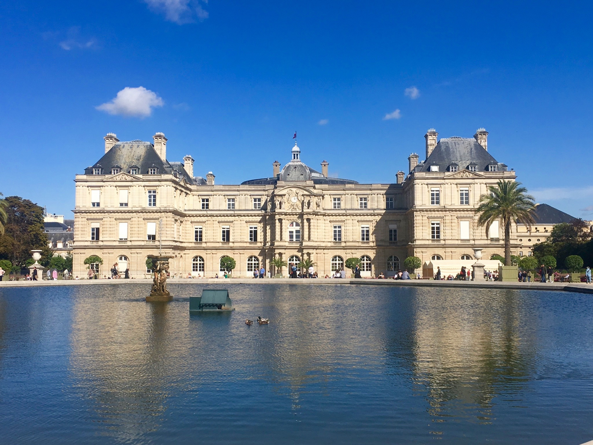 Palais du Luxembourg